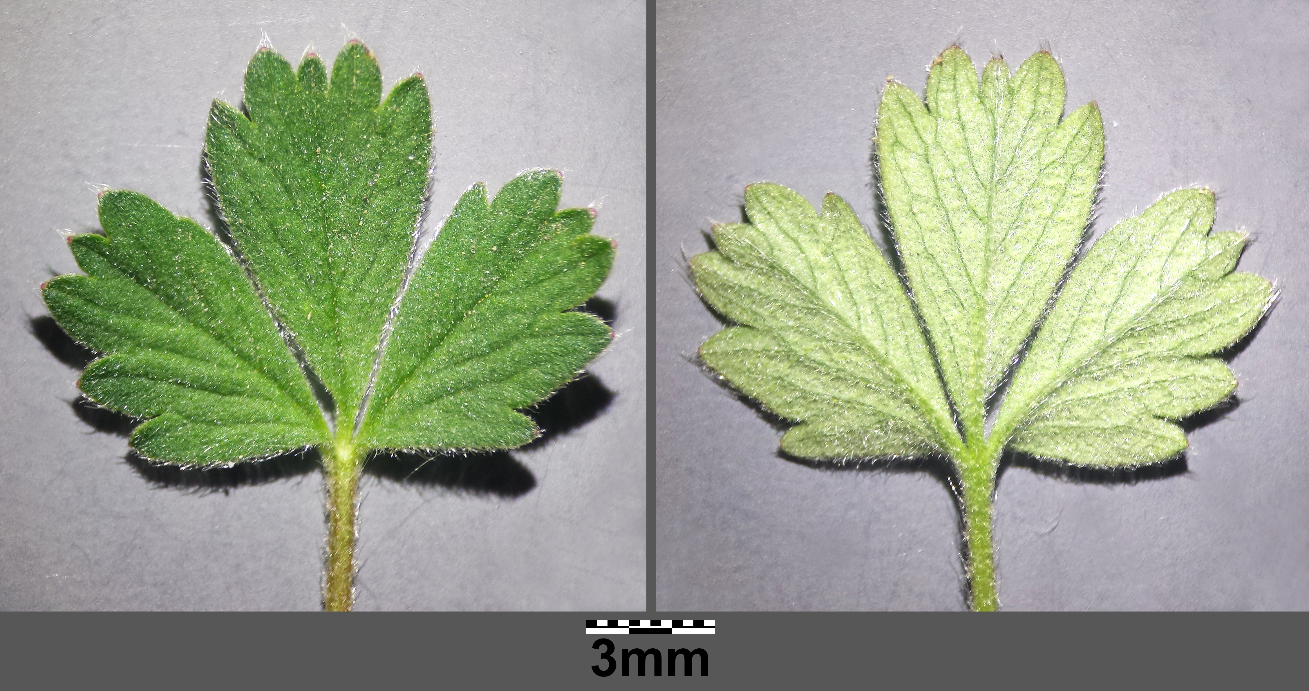 Leaf Left: upper side Right: bottom side Taxonym: Potentilla incana ss Fischer et al. EfÖLS 2008 ISBN 978-3-85474-187-9 Location: semi-dry grassland between Groß-Schweinbarth and Bad Pirawarth, district Gänserndorf, Lower Austria - ca. 180 m a.s.l. Habitat: semi-dry grassland